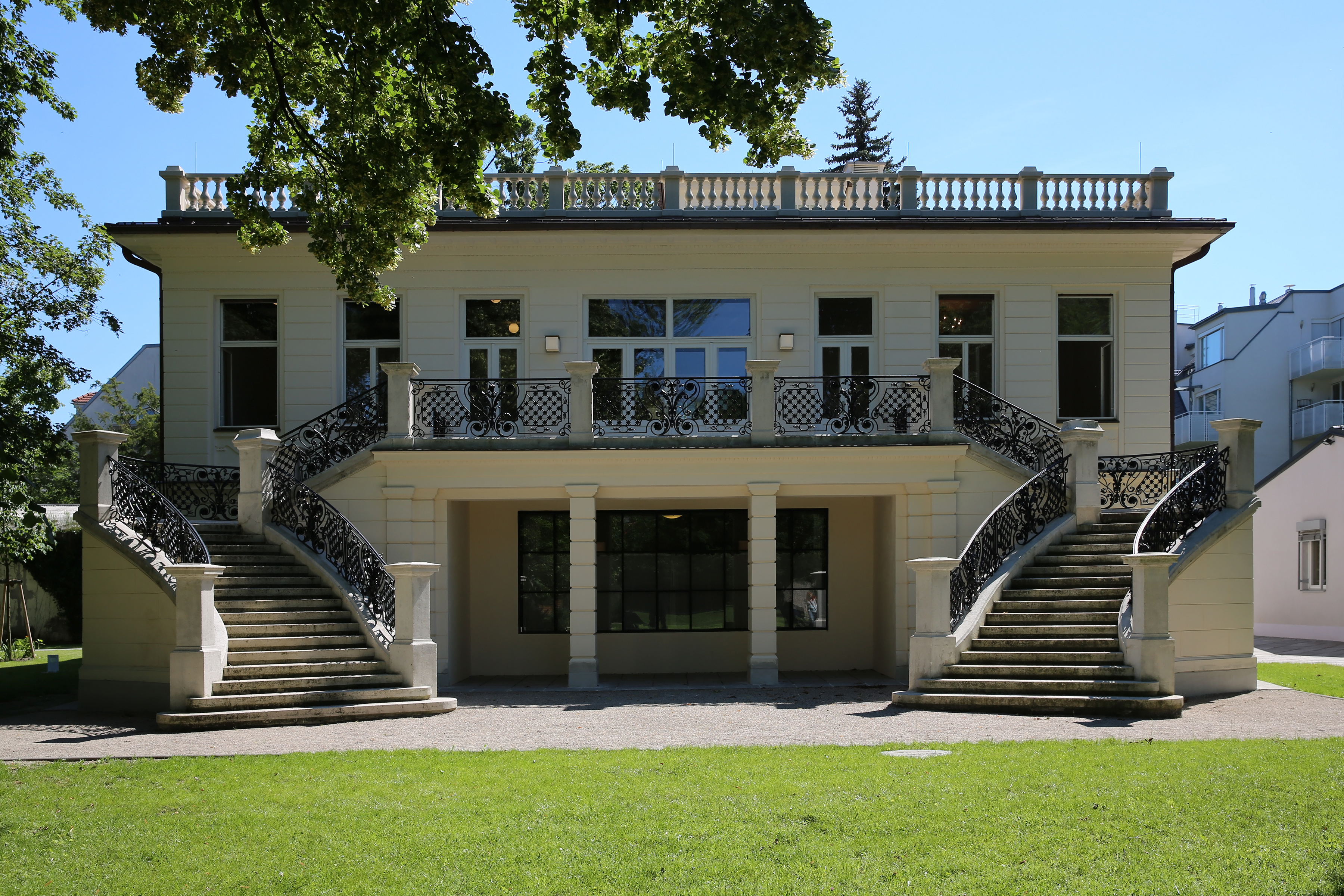 North face of the so called Klimt Villa, Gustav Klimt's last residence in Vienna, Austria, from 1911 to 1918.